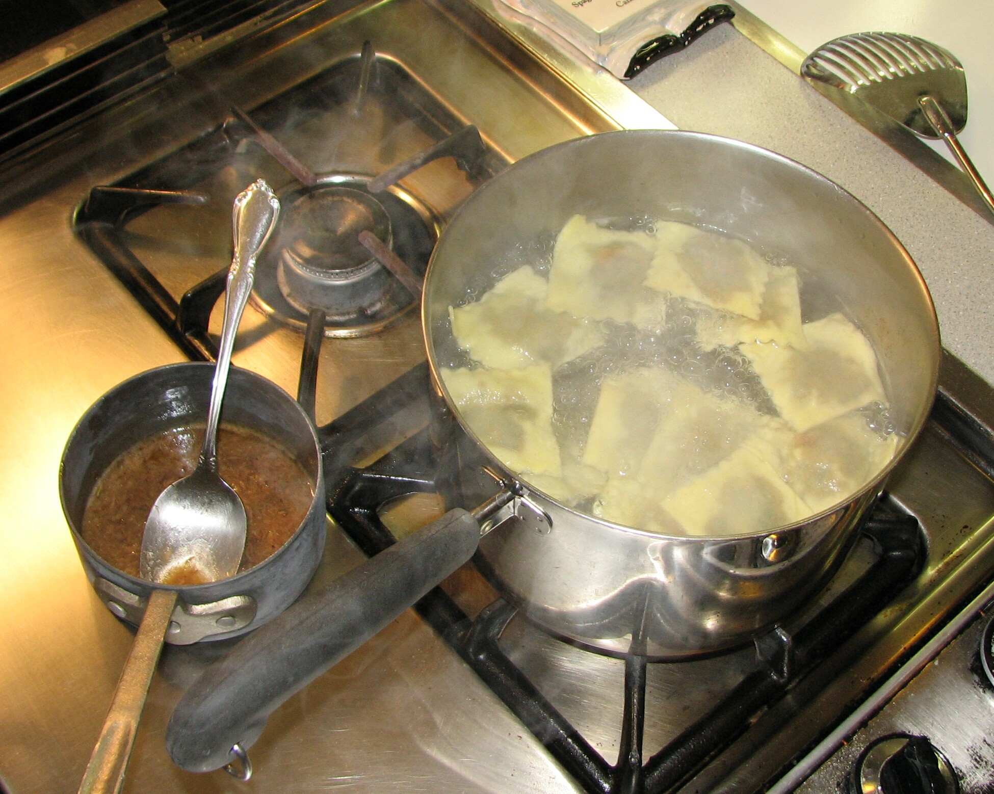 Oxtail ravioli made from a recipe from a restaurant in Nice, France, being cooked